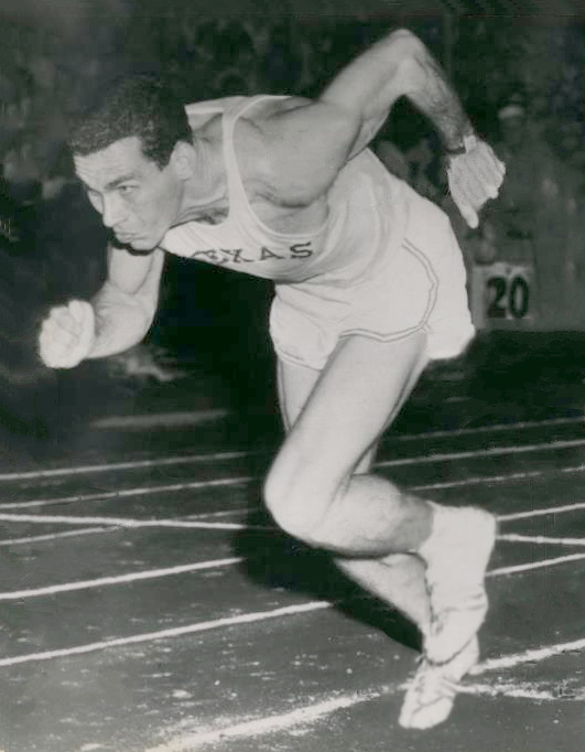 1958 Press Photo Eddie Southern runs 440-Yard Dash - sbs08465